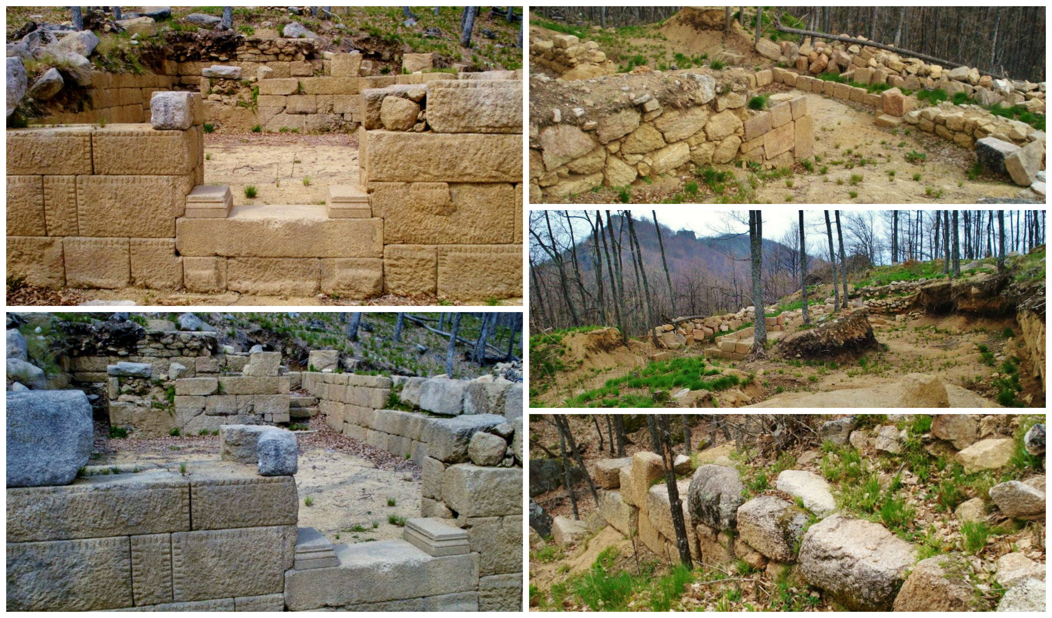 Kozi Gramadi Residence Starosel Bulgaria